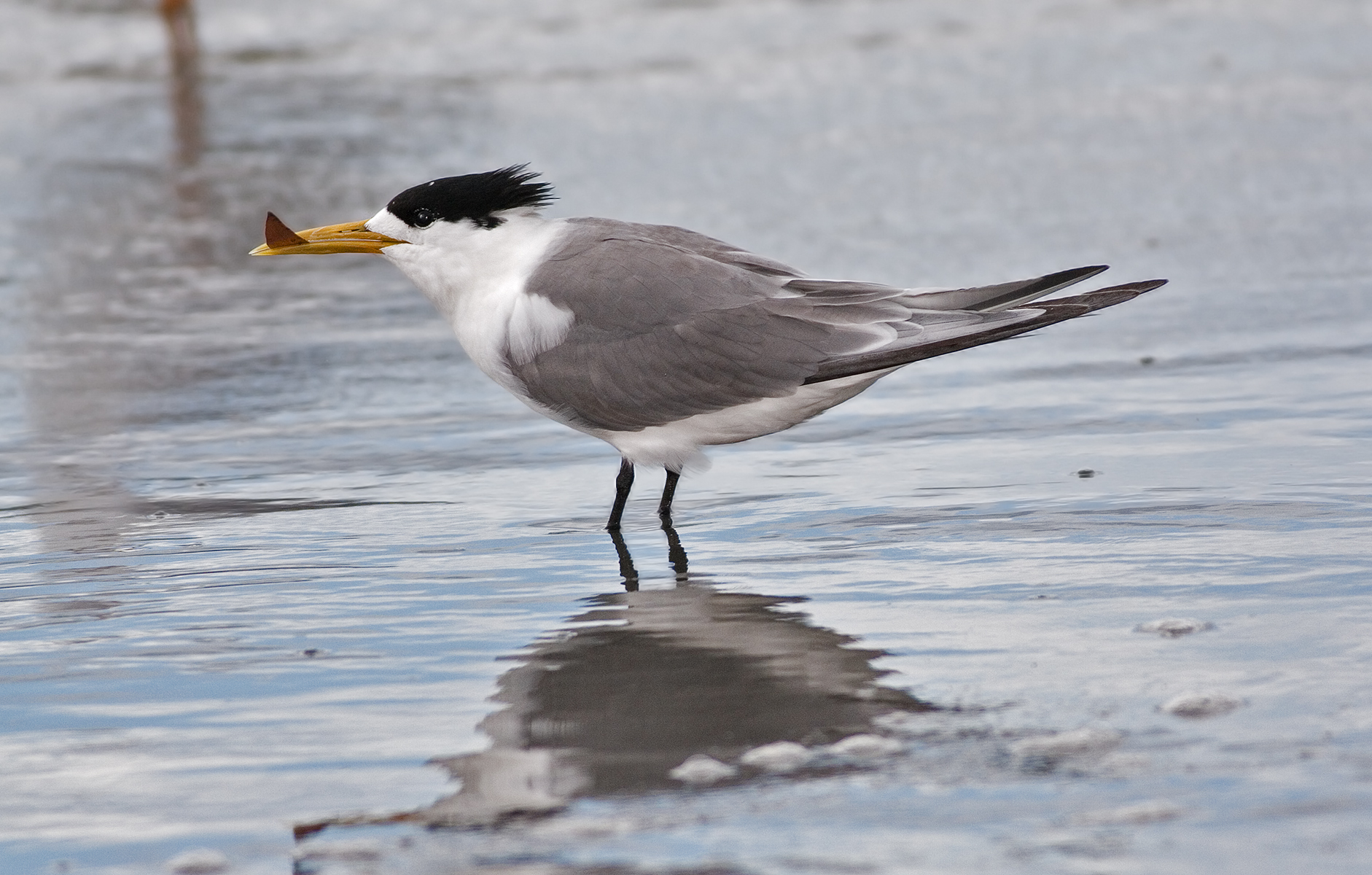 Greater Crested Tern Thalasseus bergii, Adventure Bay, Bruny Island, Tasmania, Australia Camera data Camera Canon EOS 400D Lens Canon EF 400mm f5.6L Flash Fill w/ Fresnel Extender Focal length 400 mm Aperture f/5.6 Exposure time 1/1600 s Sensivity ISO 400